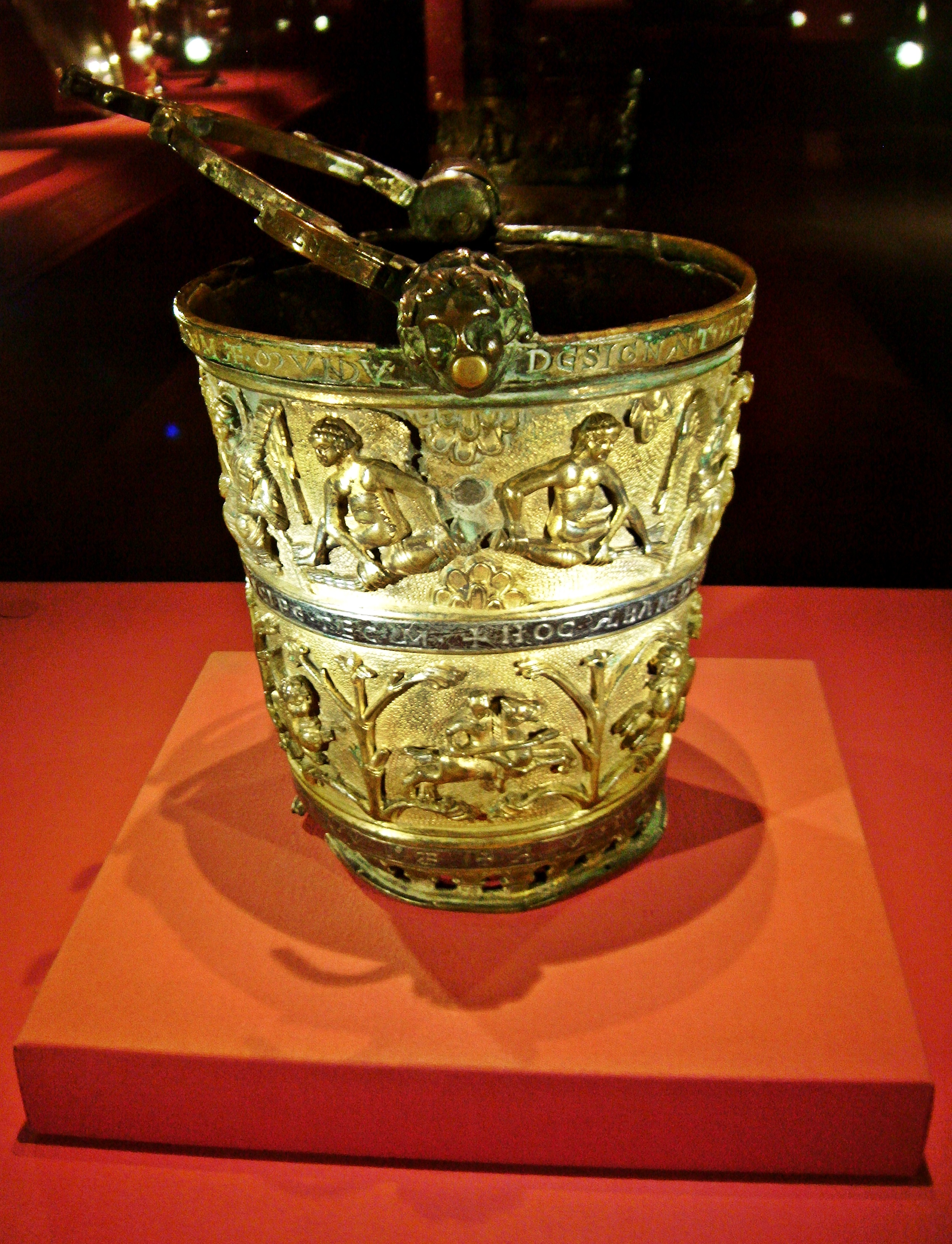 Weihwasserkessel um 1120, aus dem Stift St. Alban Mainz, heute Speyerer Domschatz, im Historischen Museum der Pfalz (Speyer)